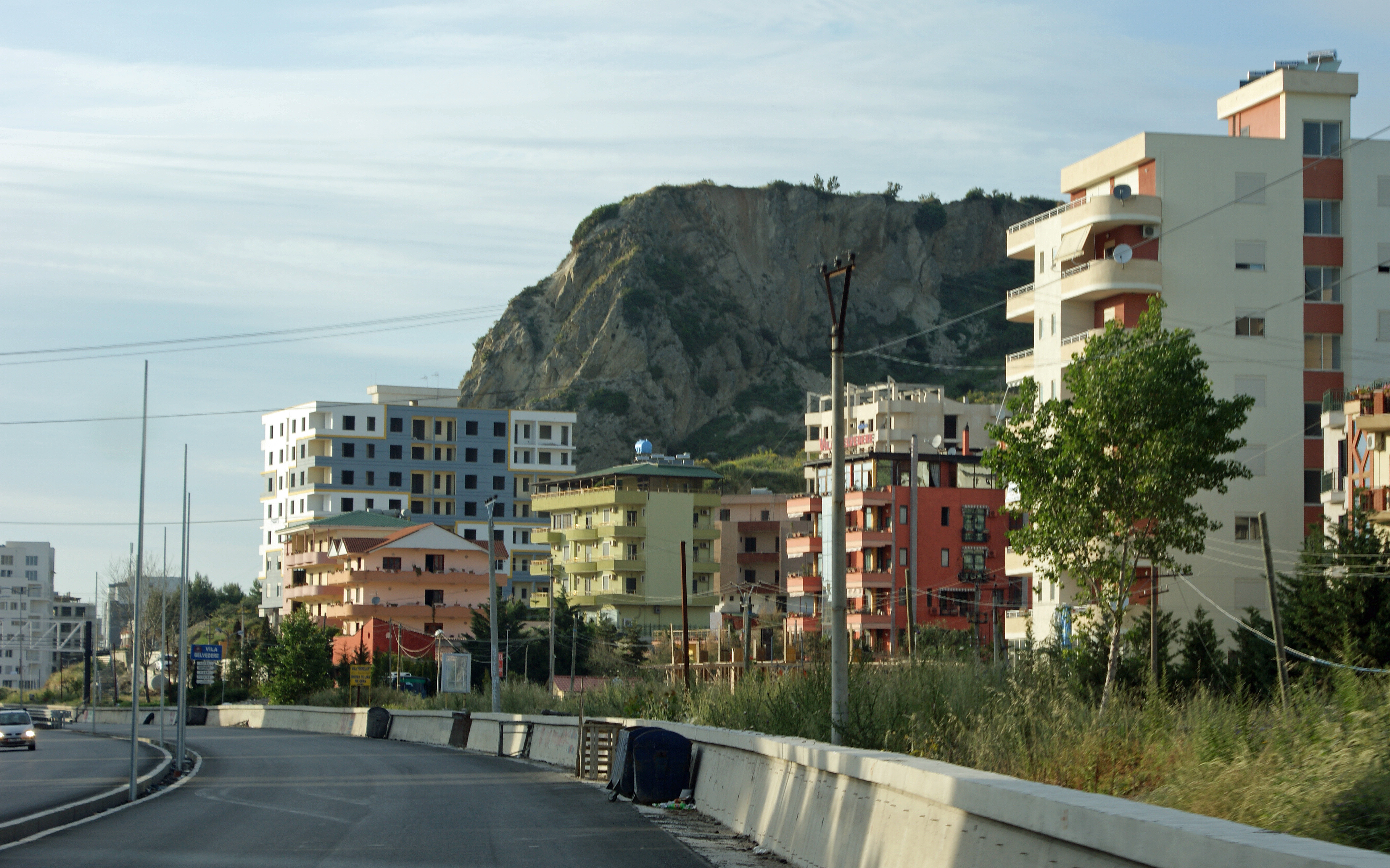 Shkëmbi i Kavajës – a rock South of Durrës, Albania, just at the beach between Durrës Plazh and Golem